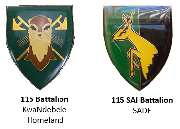 KwaNdebele and SADF 115 Battalion emblem